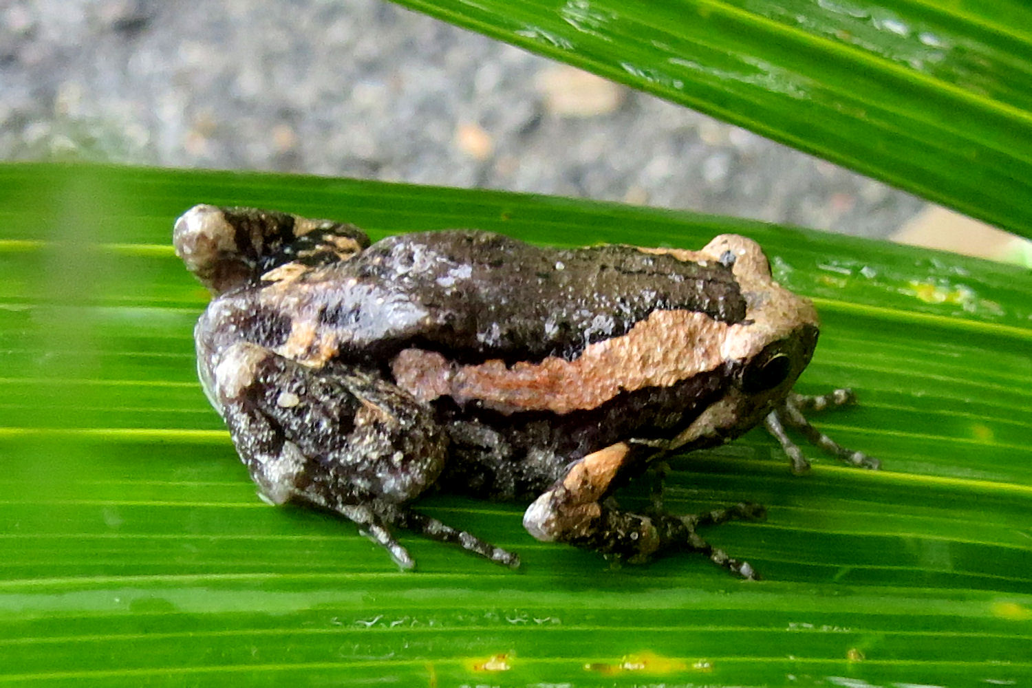 Banded Bullfrog (Kaloula pulchra), young, Angkor Wat, Cambodia